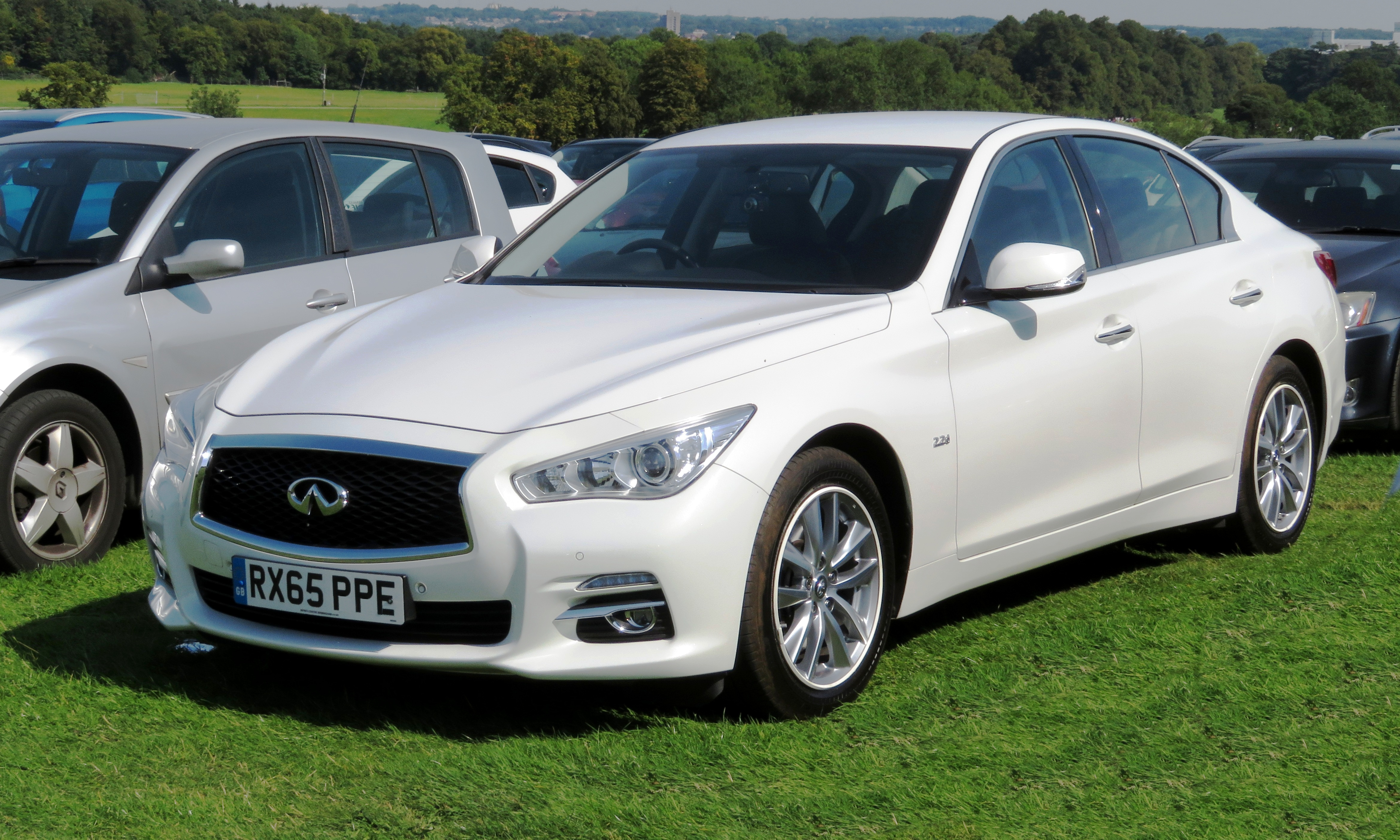 Infiniti Q50 2.2d (2015)